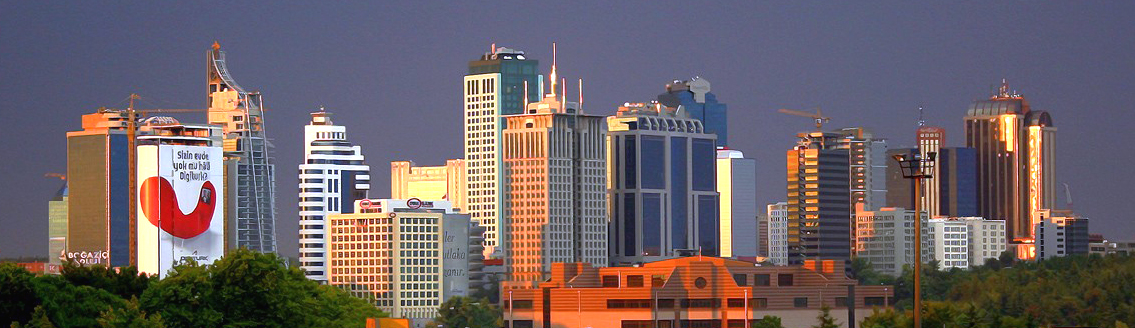 Maslak financial district in Istanbul at sunset. Summary Maslak financial district in Istanbul at sunset. Picture taken by me - Kerem Barut.